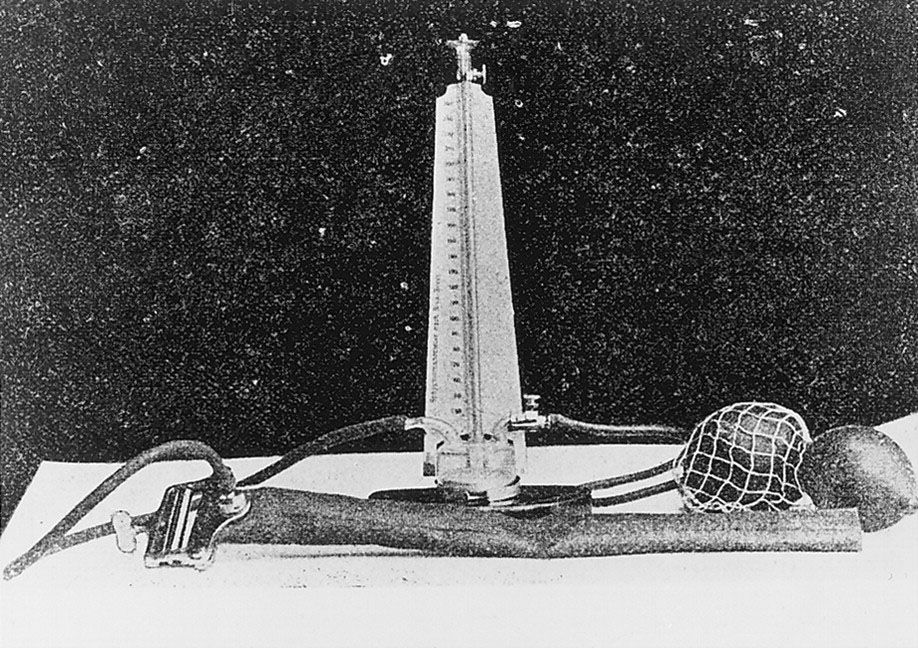 Riva-Rocci sphygmomanometer used by Korotkoff in his measurements (from Korotkoff's dissertation). The length of the cuff was approximately 1 2 arshin (35.56 cm) and the width was at least 21 2 to 3 inches (6.35 to 7.62 cm)